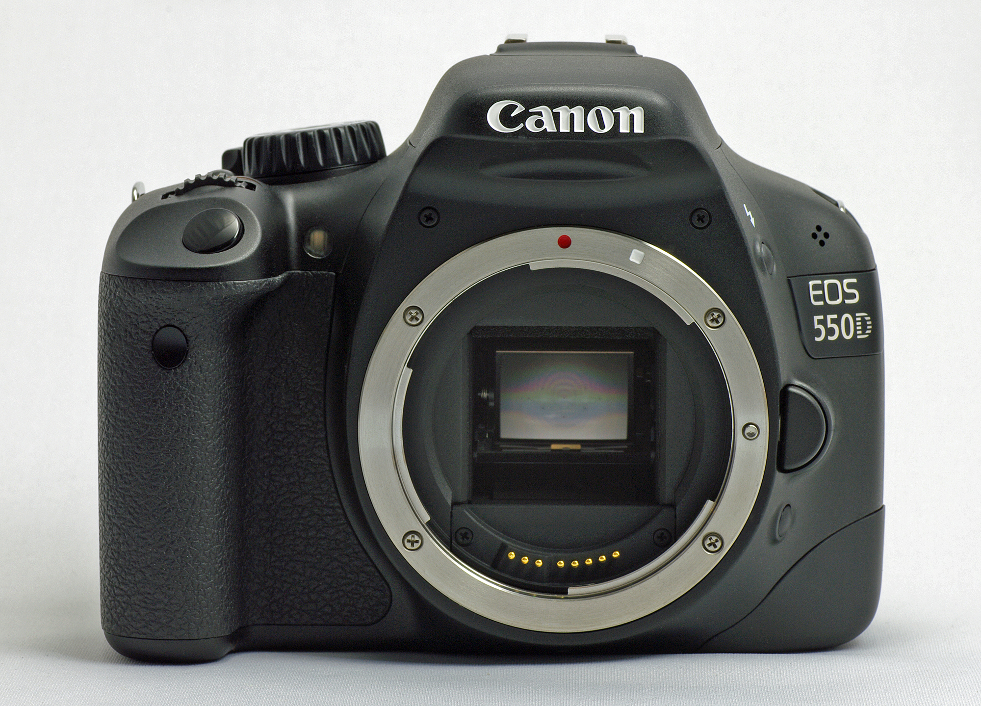 The digital SLR camera Canon EOS 550D (= EOS Rebel T2i / EOS Kiss X4); body without lens.